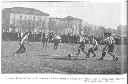 Match Juventus-Andrea Doria 0-1, 1908 Prima Categoria Federal Championship (Campionato Federale di Prima Categoria).